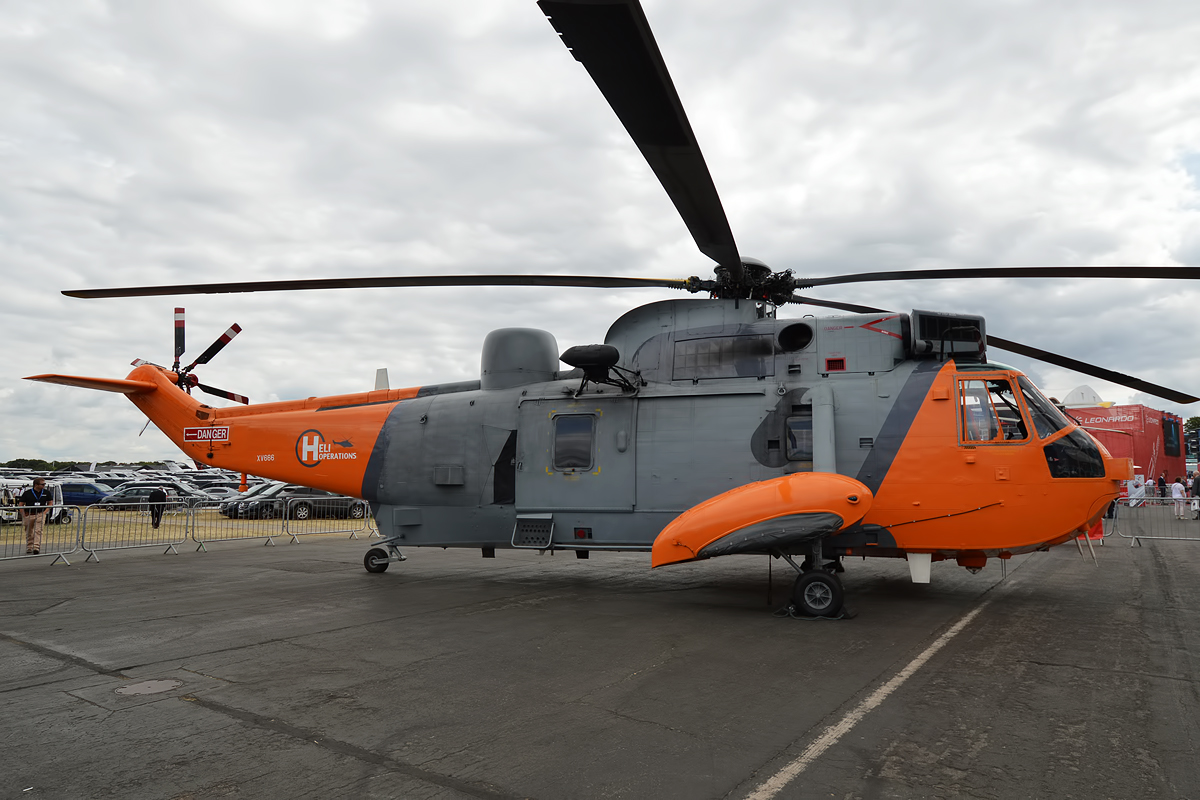 Former Royal Navy, XV666, Westland Sea King HU5 operated by HeliOperations